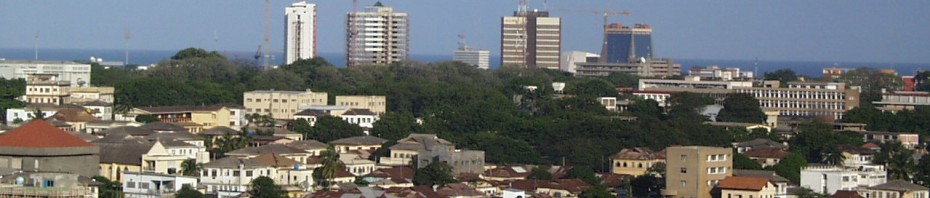 Skyline of Accra